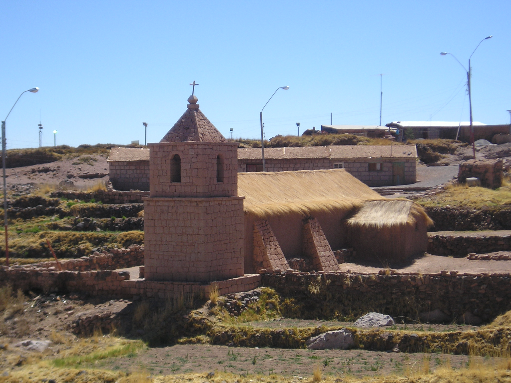 Thatched (straw covered) old church in Socaire, a village about 100 km south of San Pedro de Atacama, Chile